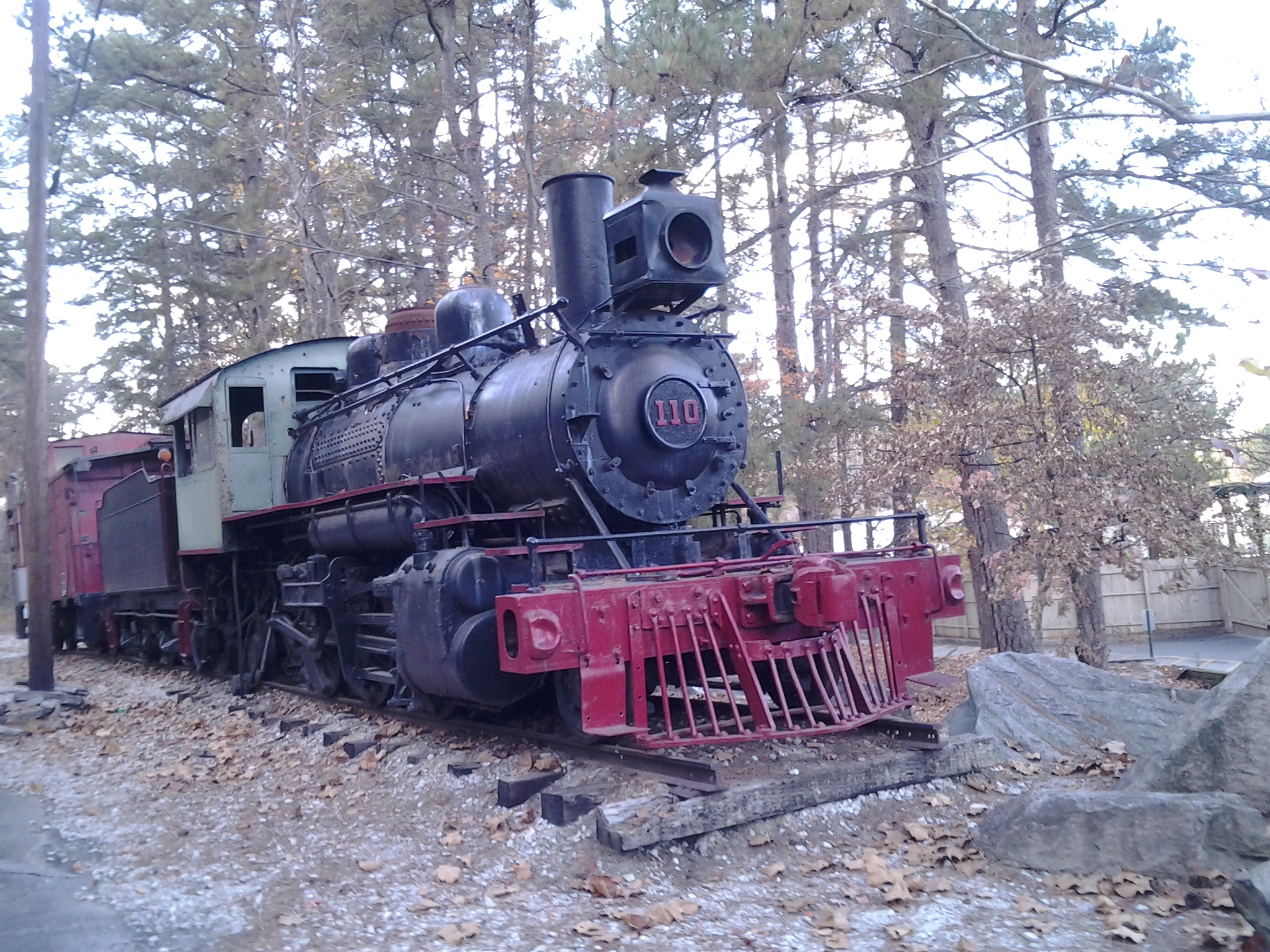 McRae Lumber & Manufacturing 2-6-2 locomotive, later Stone Mountain Railroad #110 "Yonah II" displayed at Stone Mountain Memorial Depot.